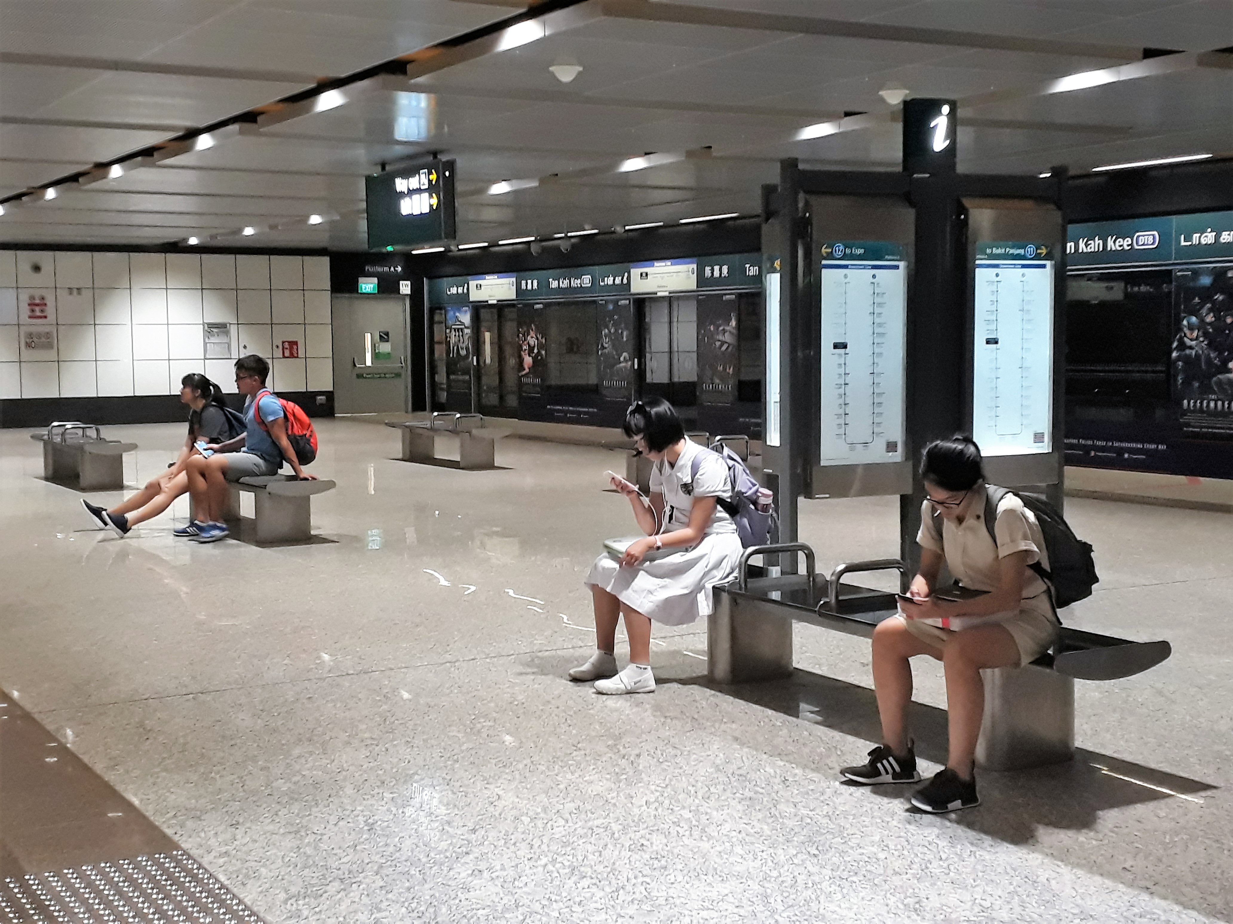 Tan Kah Kee Platform with Students